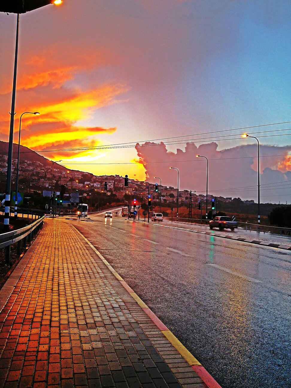 Geography of Israel